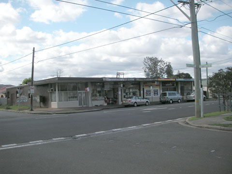 shops on Tangerine St, Fairfield East, NSW, Australia